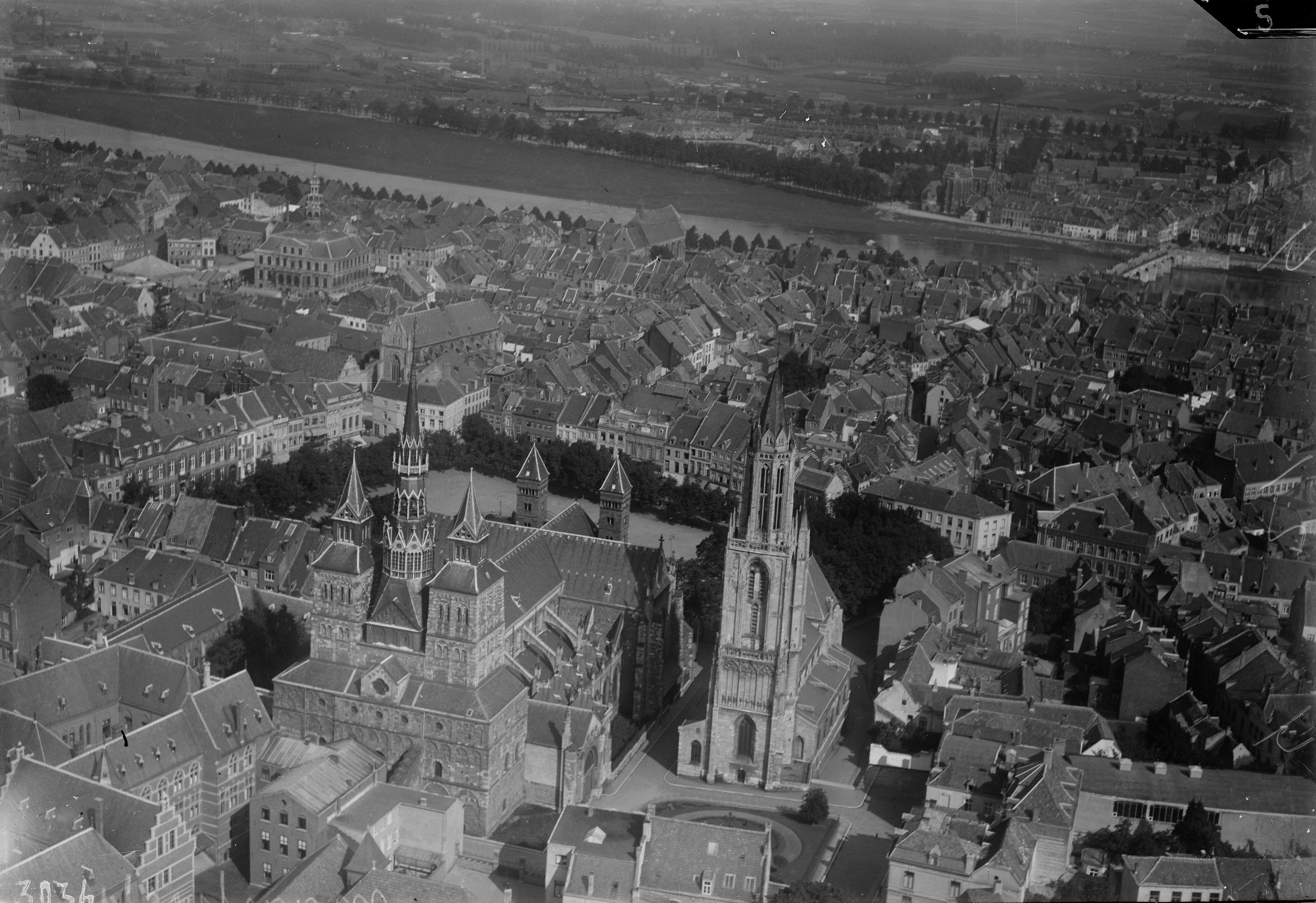 Aerial photograph of Maastricht, The Netherlands